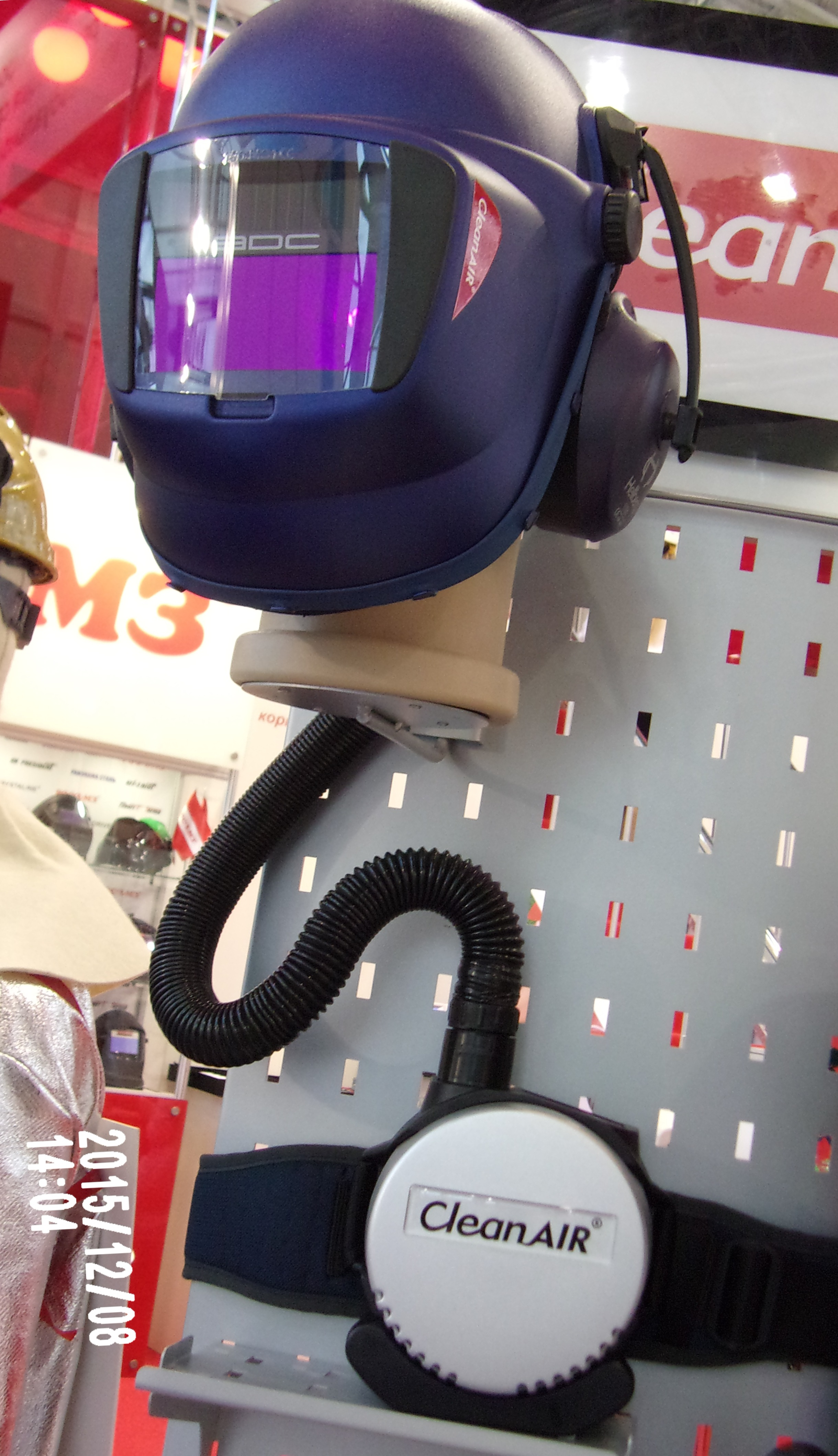 Combined personal protective equipment for welders. Protects the worker from ultraviolet radiation, particles of molten metal, and welding fumes. It consists of a special welding shield and a device which filters the air and feeds it into the breathing zone.